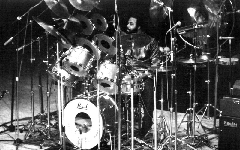 American soul jazz/hard bop jazz drummer Nesbert "Stix" Hooper in Paris, France